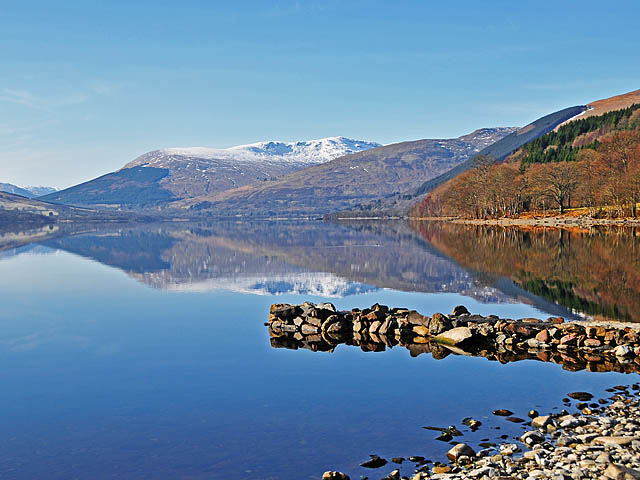 Loch Earn In the distance is snow-capped Meall an t-Seallaidh, in front of which are Meall Reamhar and Meall a'Mhadaidh.